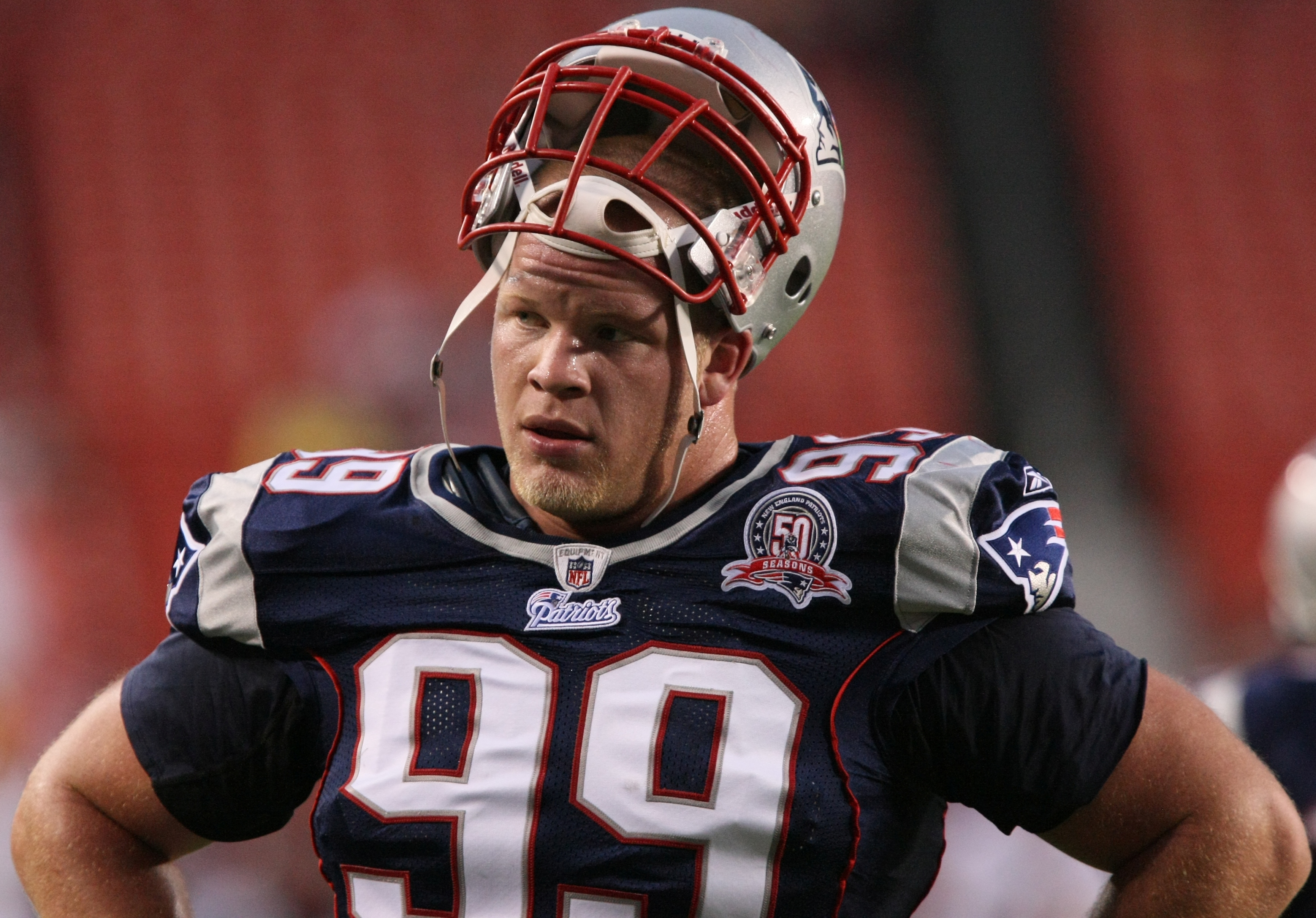 New England Patriots defensive tackle Mike Wright at the preseason game against the Washington Redskins on August 28, 2009.